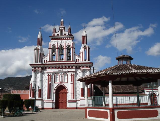 iglesia gotica en el barrio de mexicanos (Templo de la Asunción)